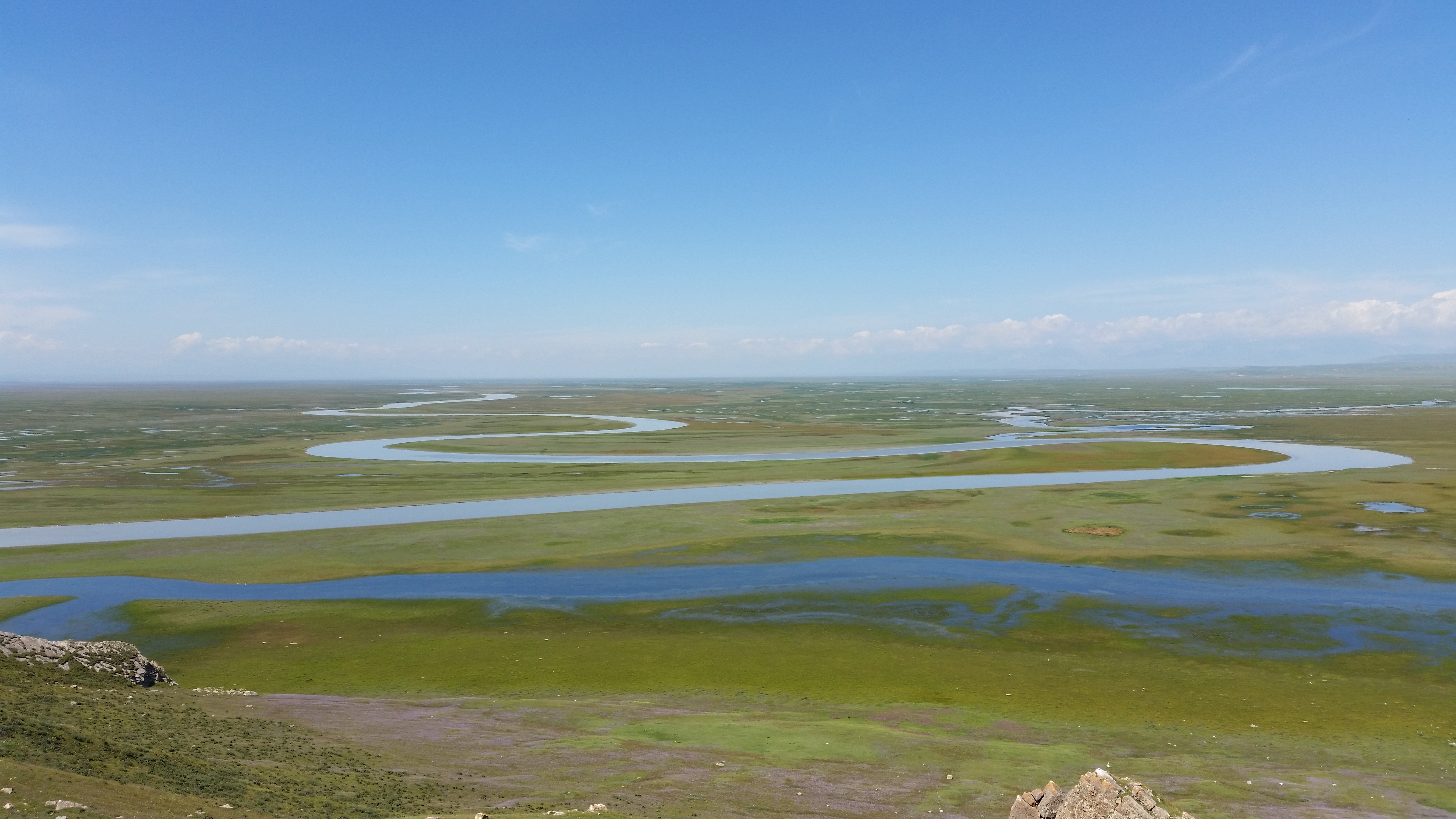 River Kaidu in Bayan-Bulak wetland.